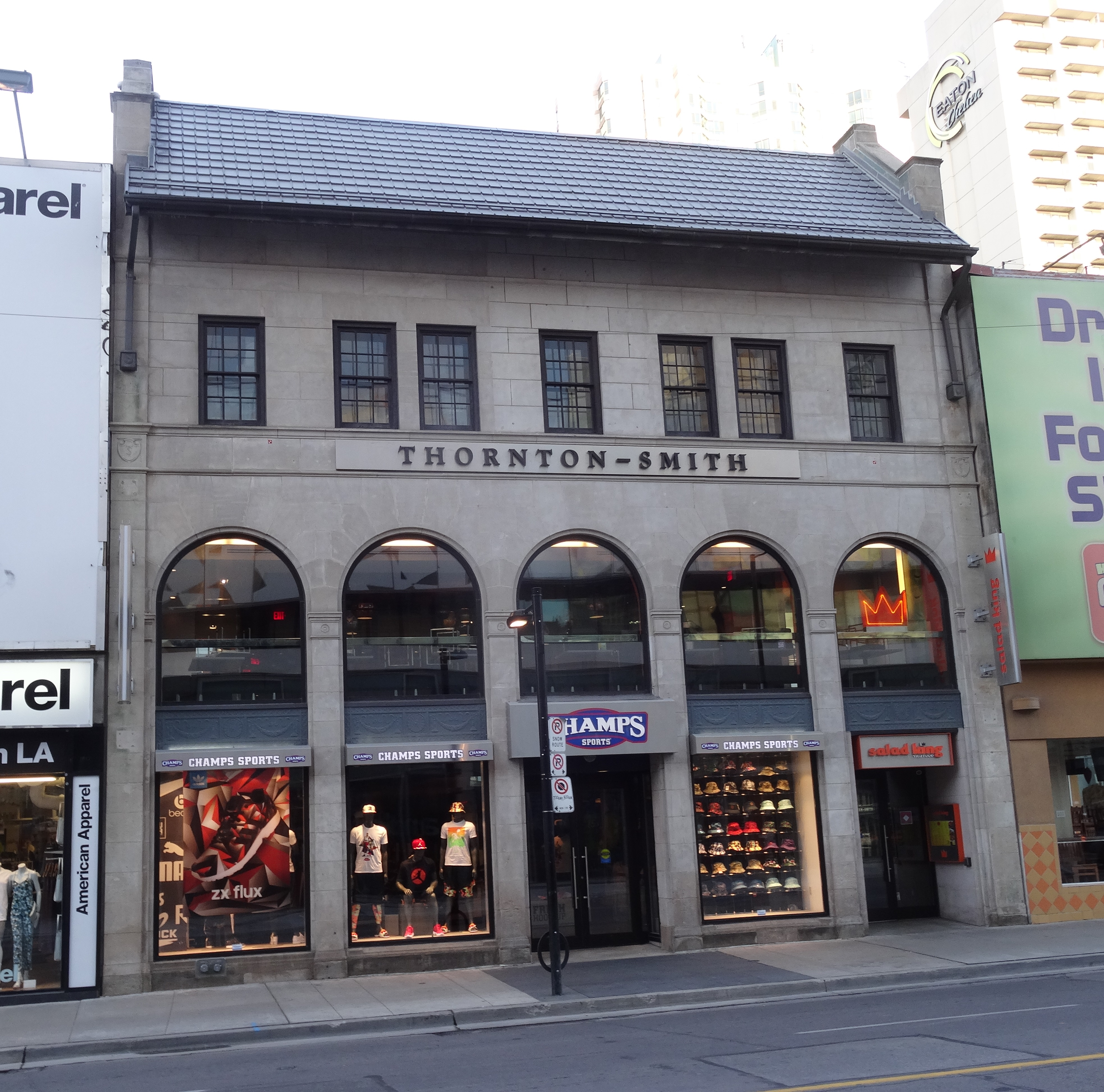 Thornton Smith Building View From Yonge Street May 14, 2015